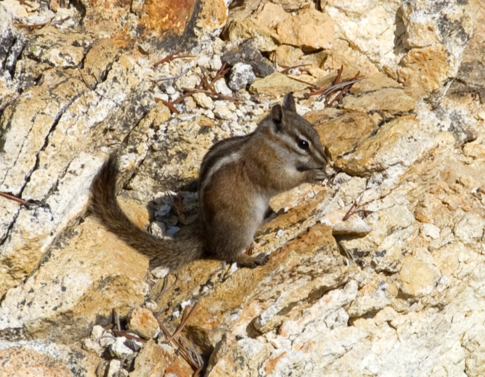 Chipmunk